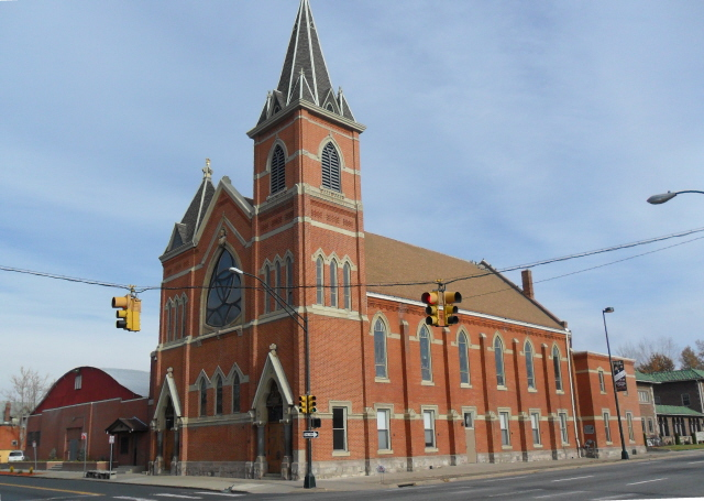 Saint Joseph Church & Gym1